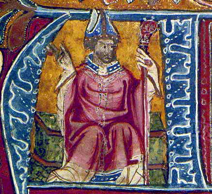 A 14th-century Portrait of Robert Grosseteste: London, British Library, MS Royal 6.E.v, fol. 1ra.